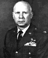 United States Air Force (USAF) Colonel Ralph C. Hoewing. Col Hoewing was the first commandant of the USAF Test Pilot School.